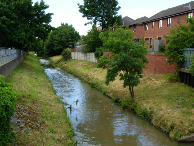 River Leen, Radford The River Leen, whose name is believed to be a corruption of the Celtic word llyn (lake), flows southwards from its source in the Robin Hood Hills (near Kirkby in Ashfield) to the River Trent south of Lenton ('Leen-ton').